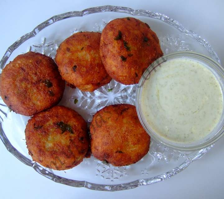 This is Aloo Ki Tikki with Mint Sauce